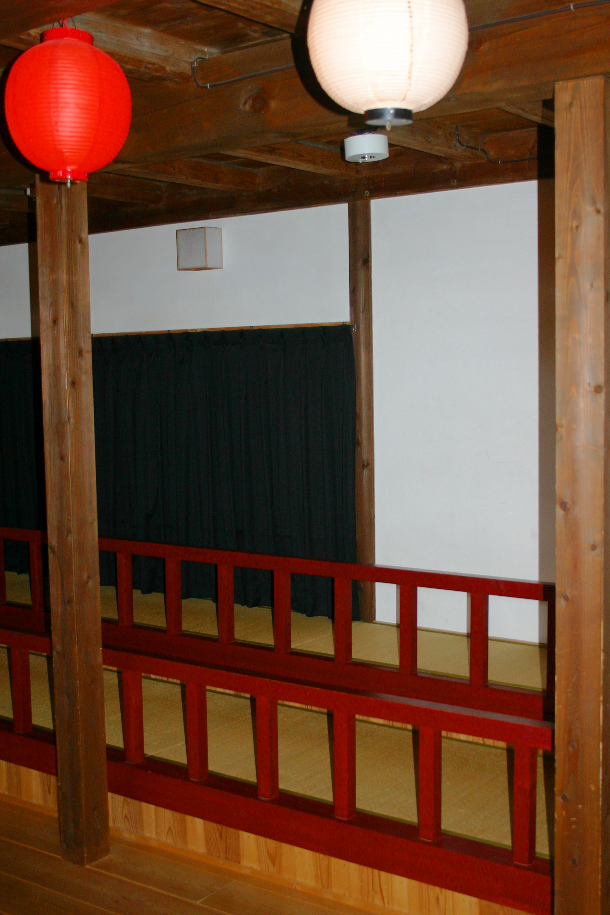 Uzura Sajiki at Wakimachi Theater Odeonza in Mima-shi, Tokushima-ken